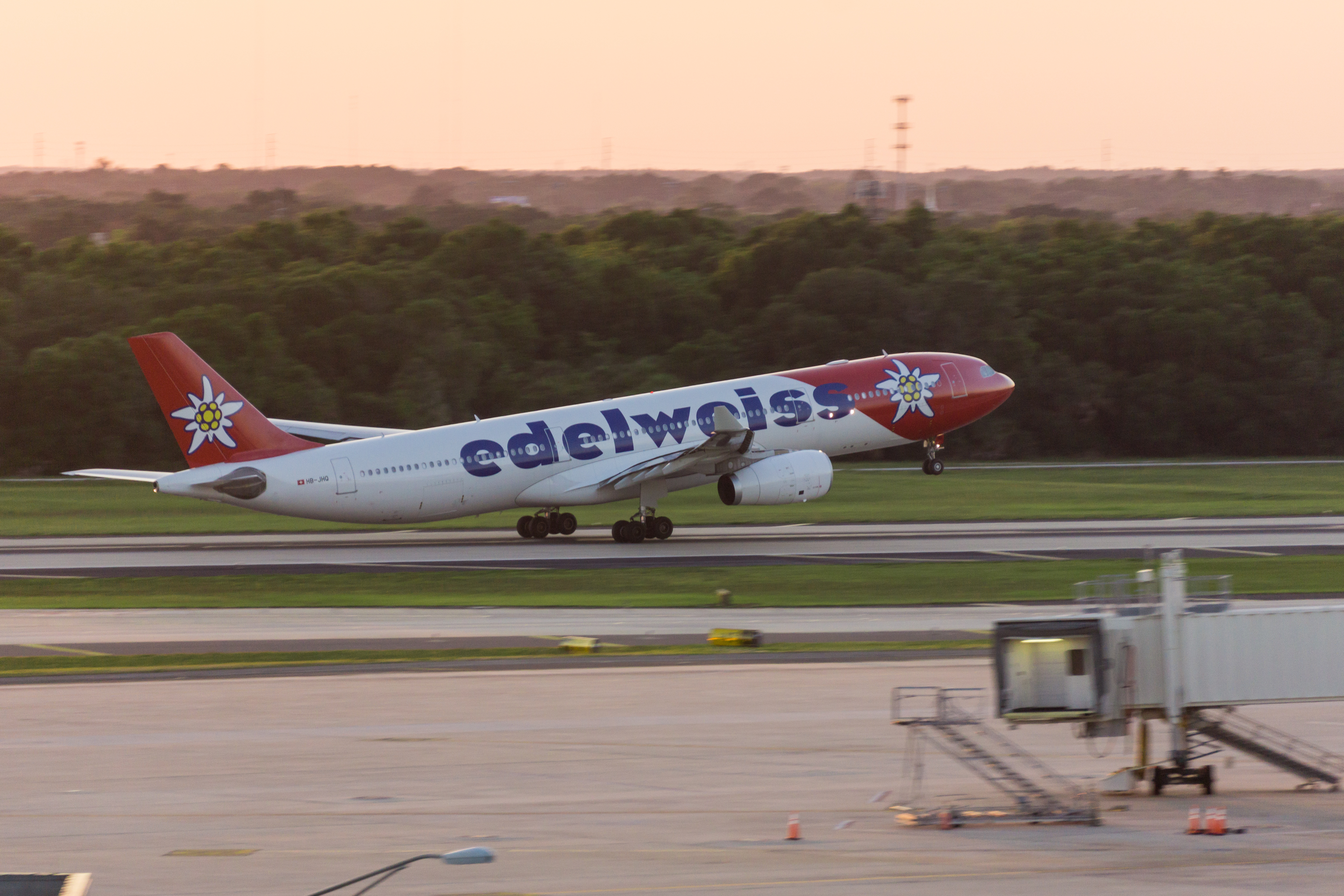 An Edelweiss Air Airbus A330-300 departing Tampa for Zurich.